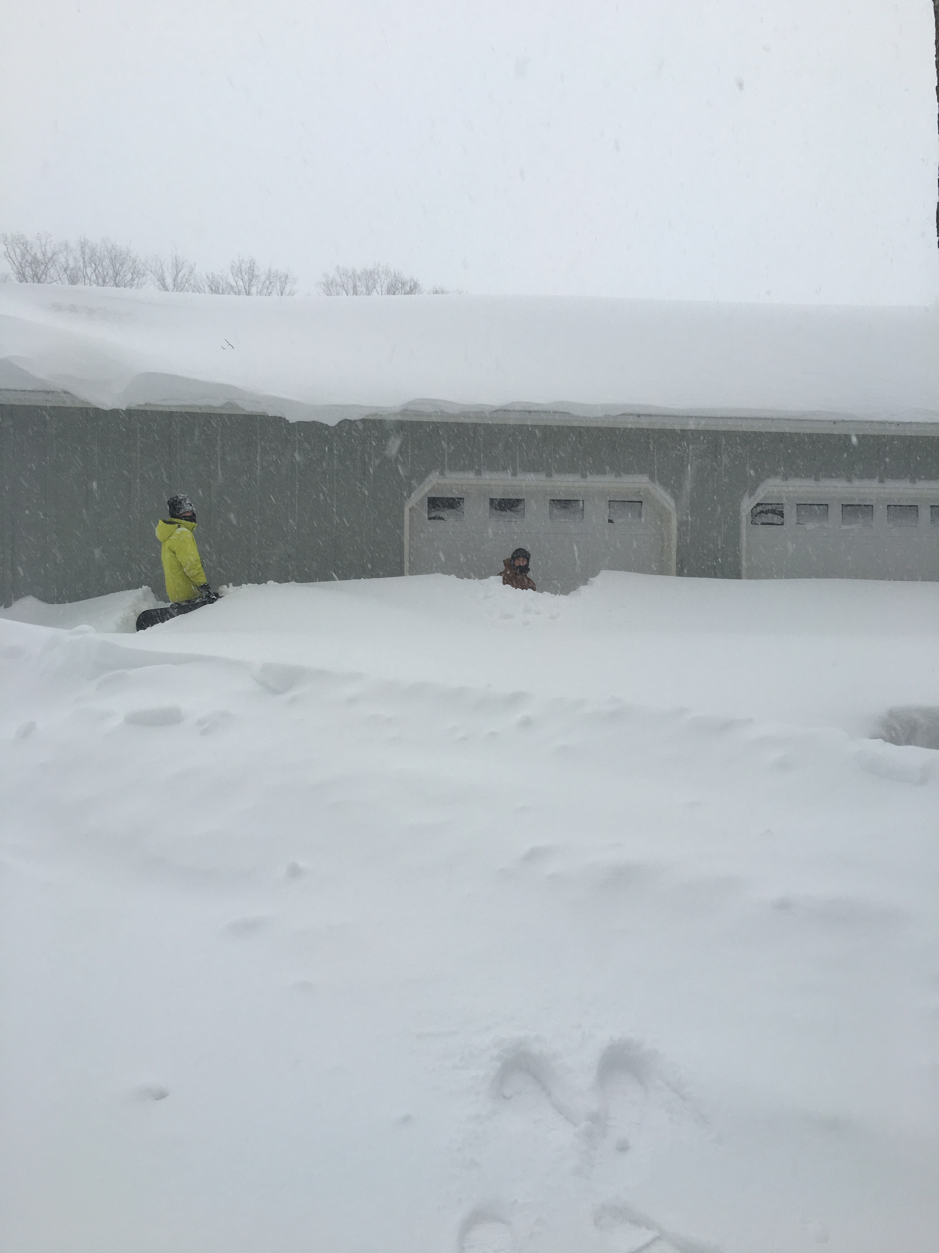 Over Five Foot Snow drifts in Reading,pa the day of the Blizzard